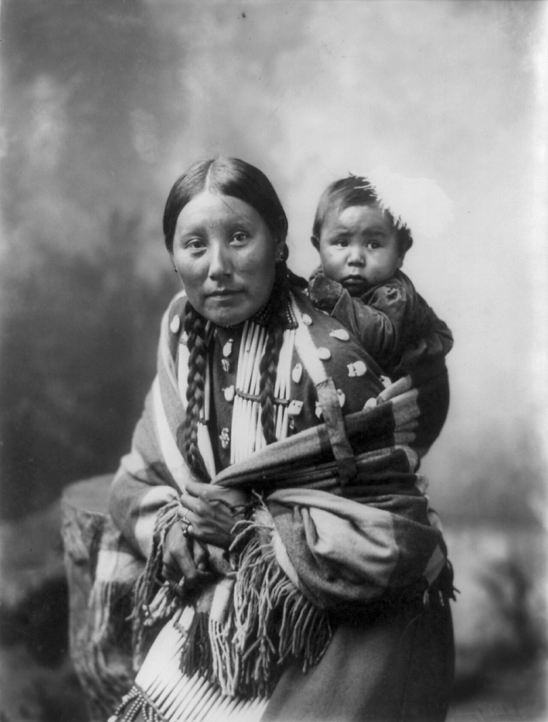 Portrait of Stella Yellow Shirt and baby, Dakota Sioux woman seated, three-quarter length, facing left, with baby on back.